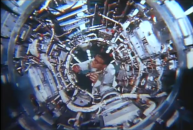 Scout rocket recertification program.